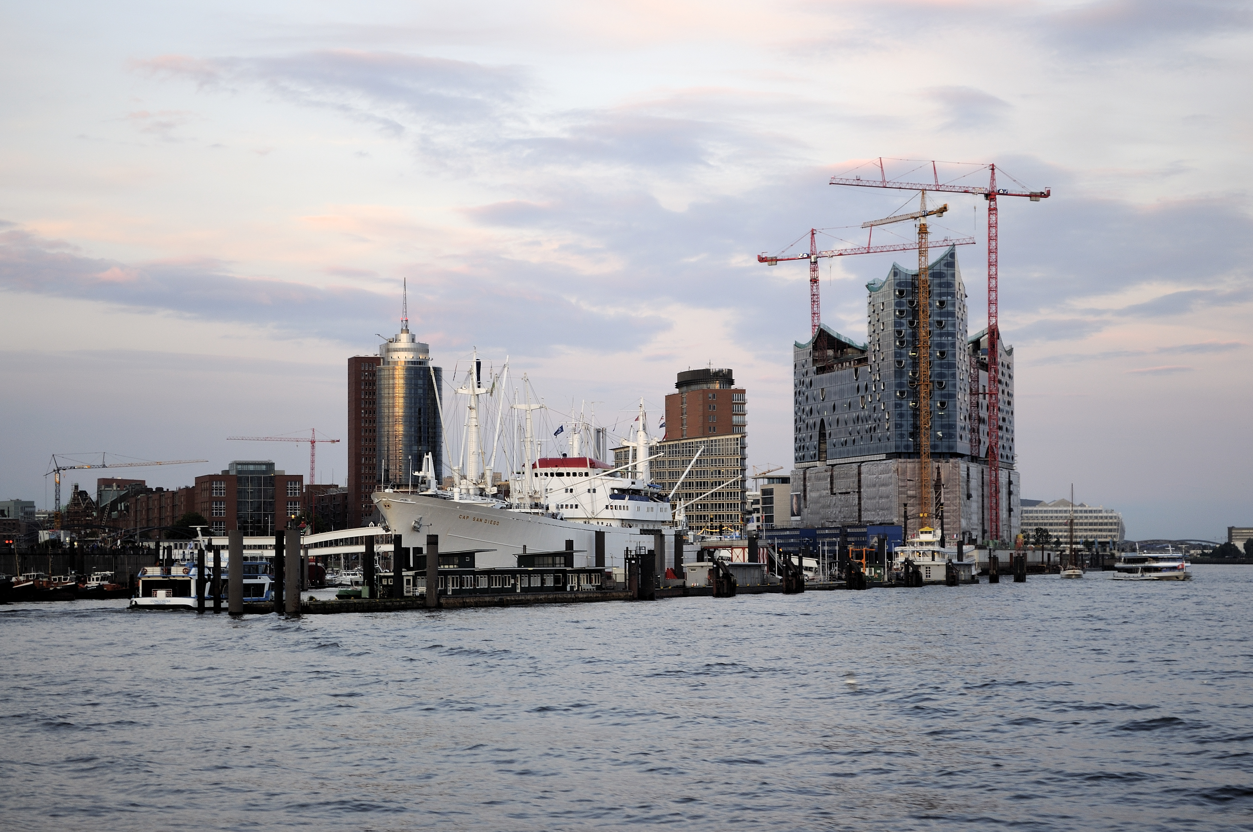 Picture taken in Hamburg. HafenCity.